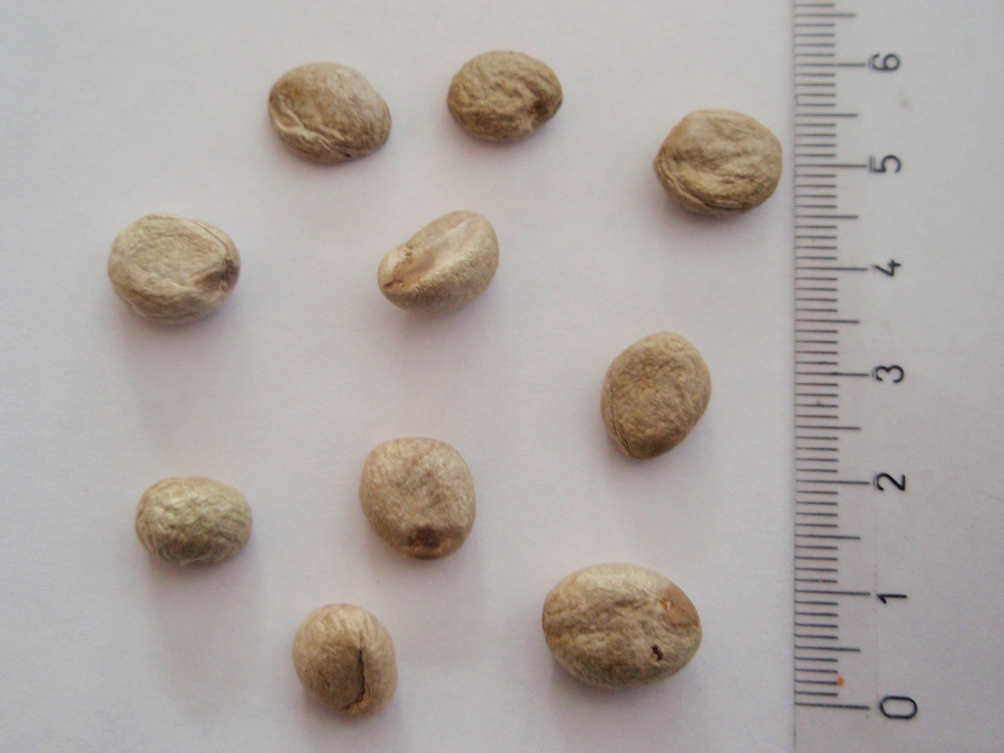 Seeds of eugenia brasiliensis